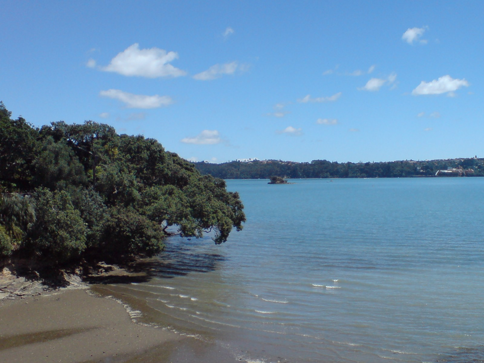 Watchman Island in the Waitemata Harbour in Auckland City, New Zealand. Photographed from Marsden Reserve in Herne Bay.